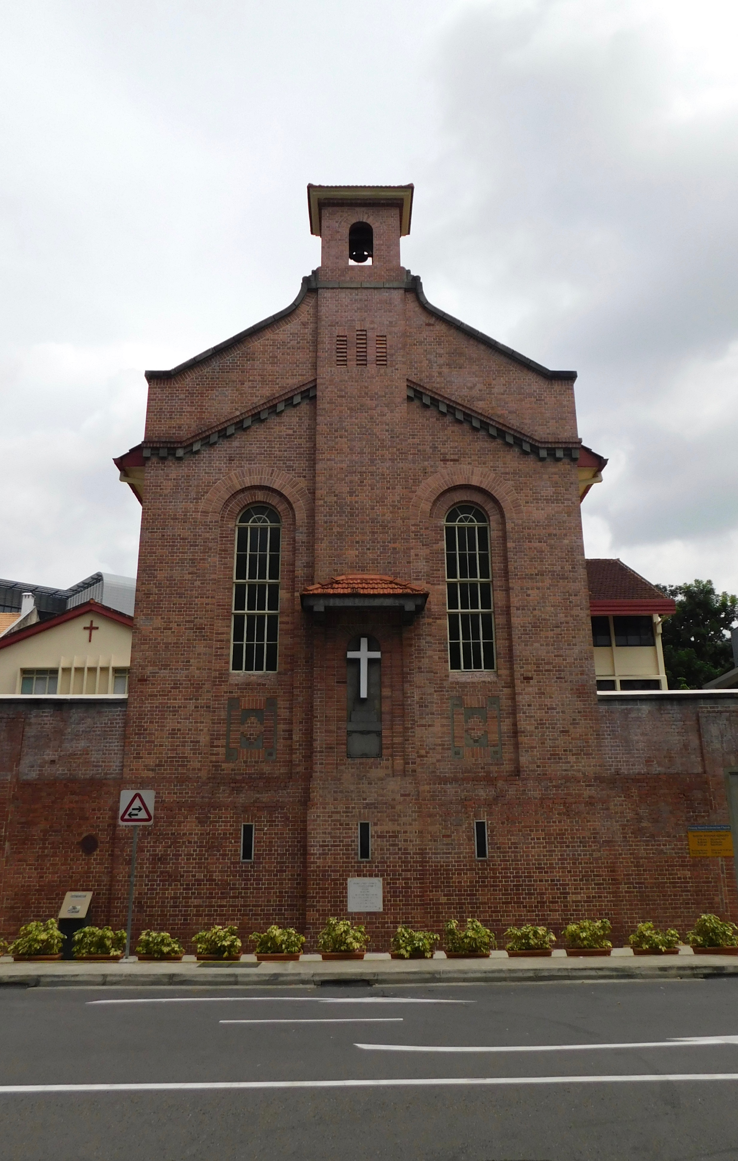 The architectural features of the Prinsep Street Presbyterian Church are its distinctive red brick façade and the raised brickwork on the tower and belfry.